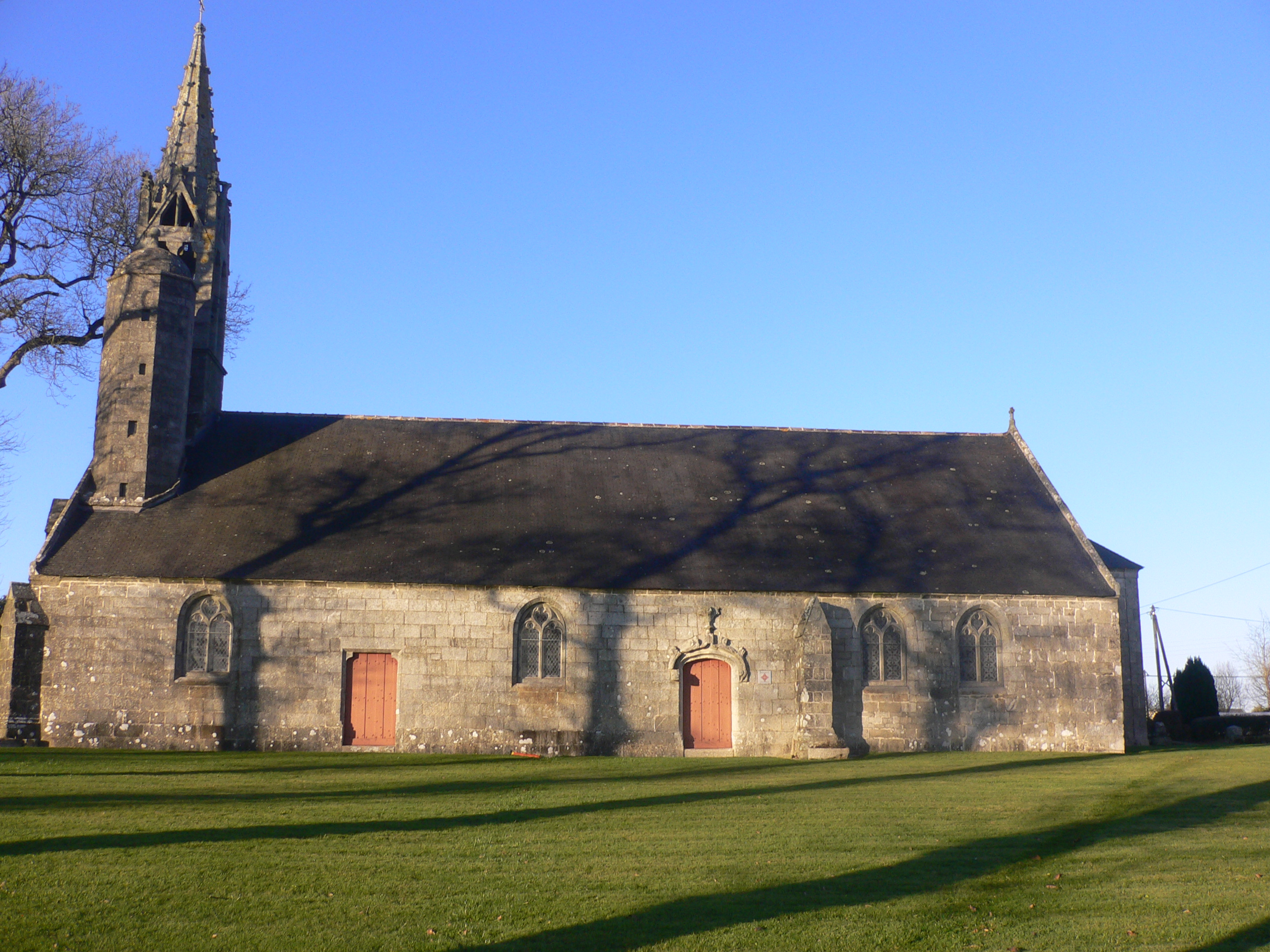 church of Coadry